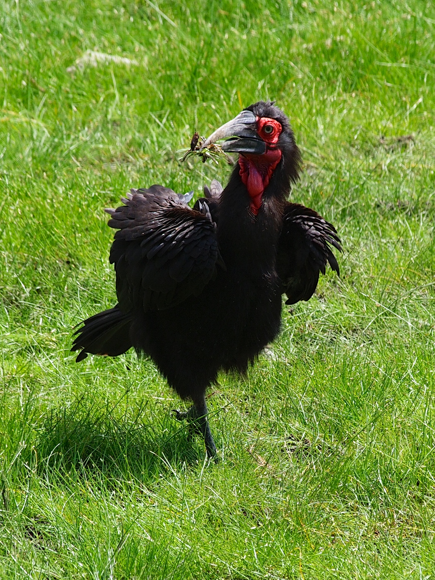 Southern Ground Hornbill Bucorvus leadbeateri, Lake Manyara National Park (2015)